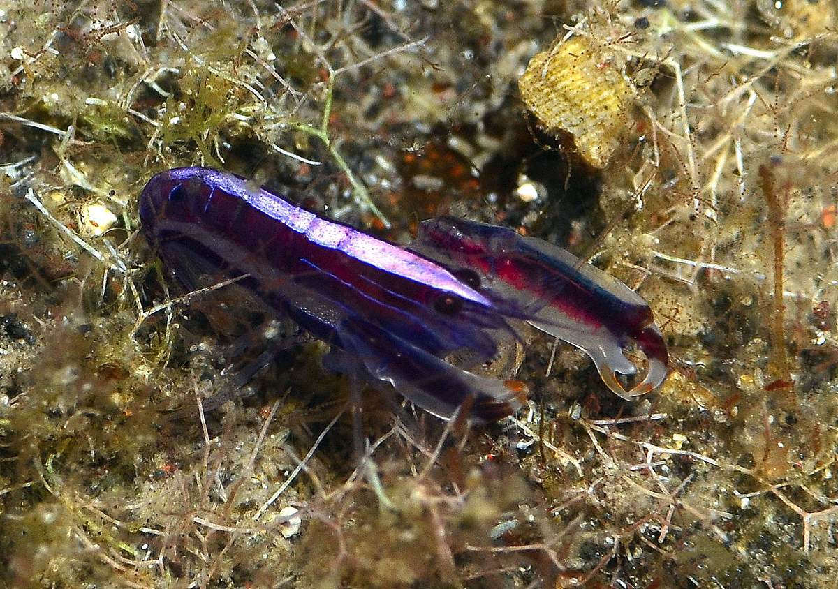 Arete indicus in Réunion island.